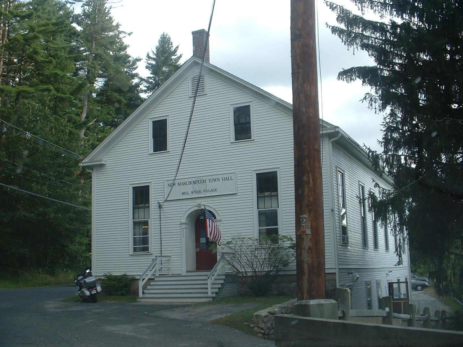 New Marlborough Town Hall, Mill River Village, New Marlborough, Massachusetts. New Marlborough Town Hall, Mill River-Southfield Rd, New Marlborough, MA